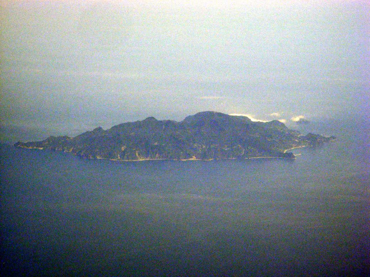 Ulleungdo from airplane